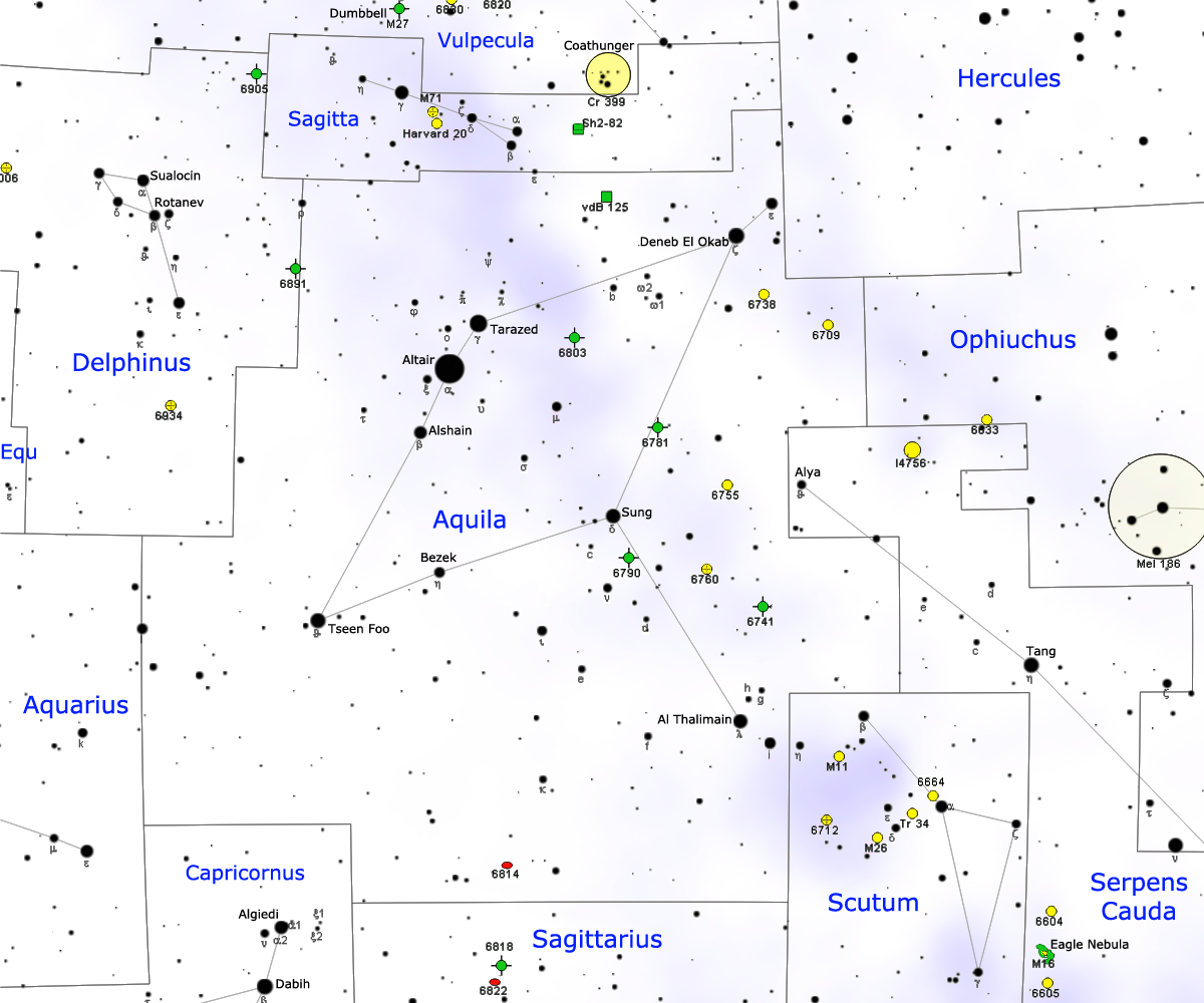 Map of Aquila